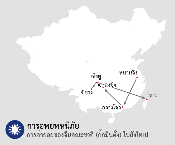 Movement of the capital of ROC in 1949 from Nanking to Taipei eventually